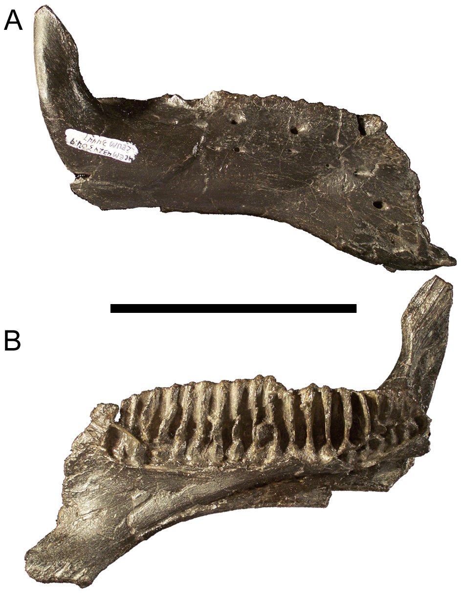 Dentary of indeterminate basal hadrosauroid. Right dentary CEUM 34447 (Eo2) in (A) lateral and (B) medial views. Scale bar equals 10 cm.